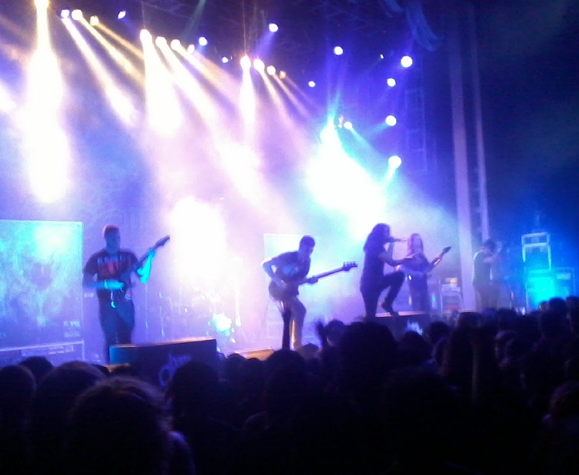 Born of Osiris' performance at Metalfest V in Anaheim, California.